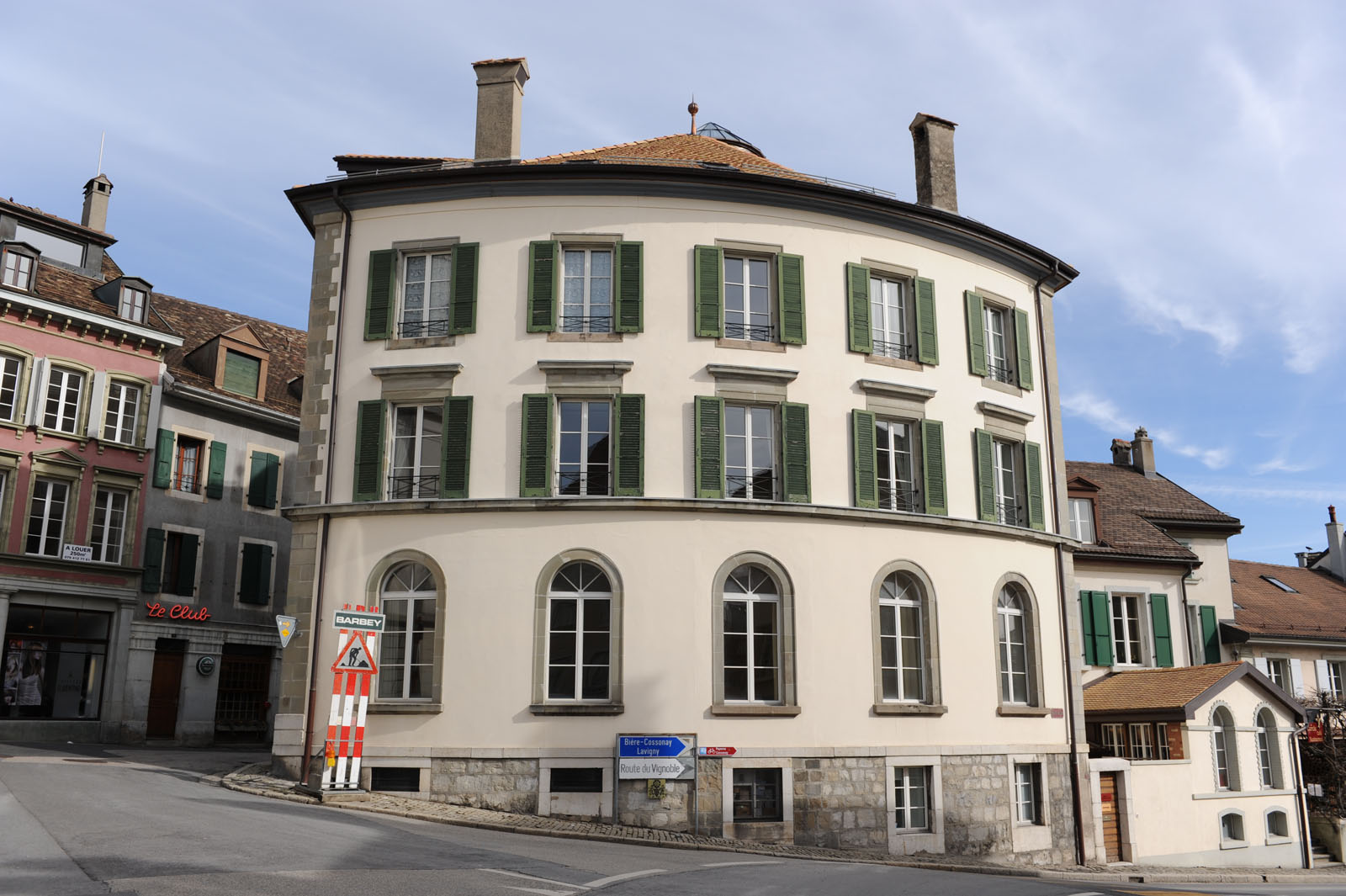 An apartment building in Aubonne, VD, Switzerland